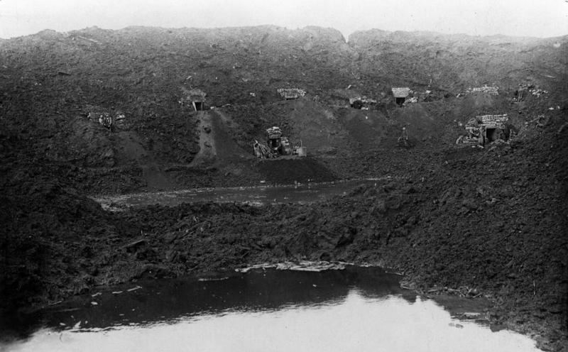 This photo appears to be part of the positions captured by the German army at "The Bluff" on the north bank of the Ypres-Comines Canal, on 14 February 1916. This was a diversionary action, to divert attention from the German offensive at Verdun.